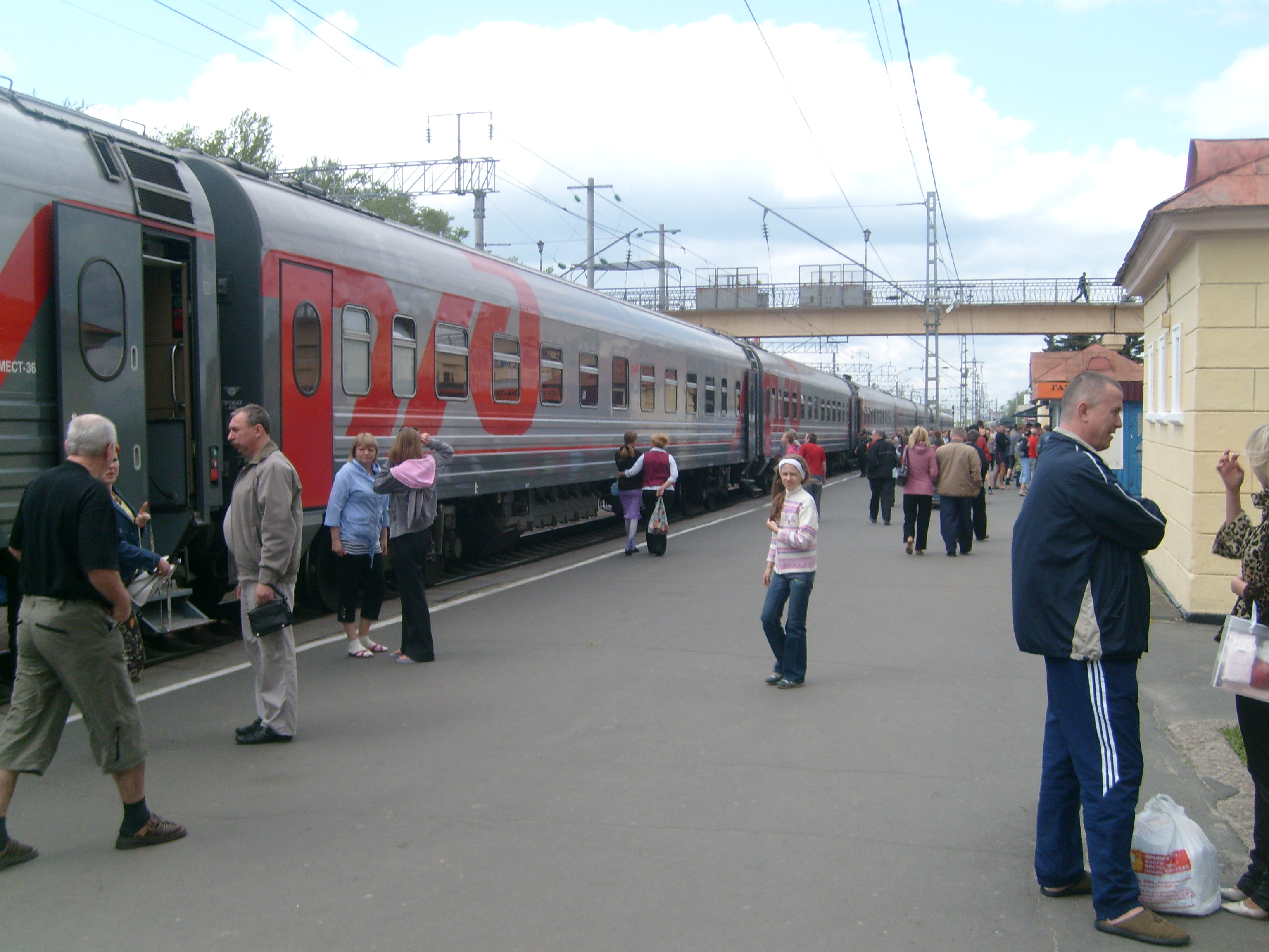 Новые вагоны фирменного поезда №15/16 "Арктика" Мурманск-Москва на станции Петрозаводск. Май 2010 года.